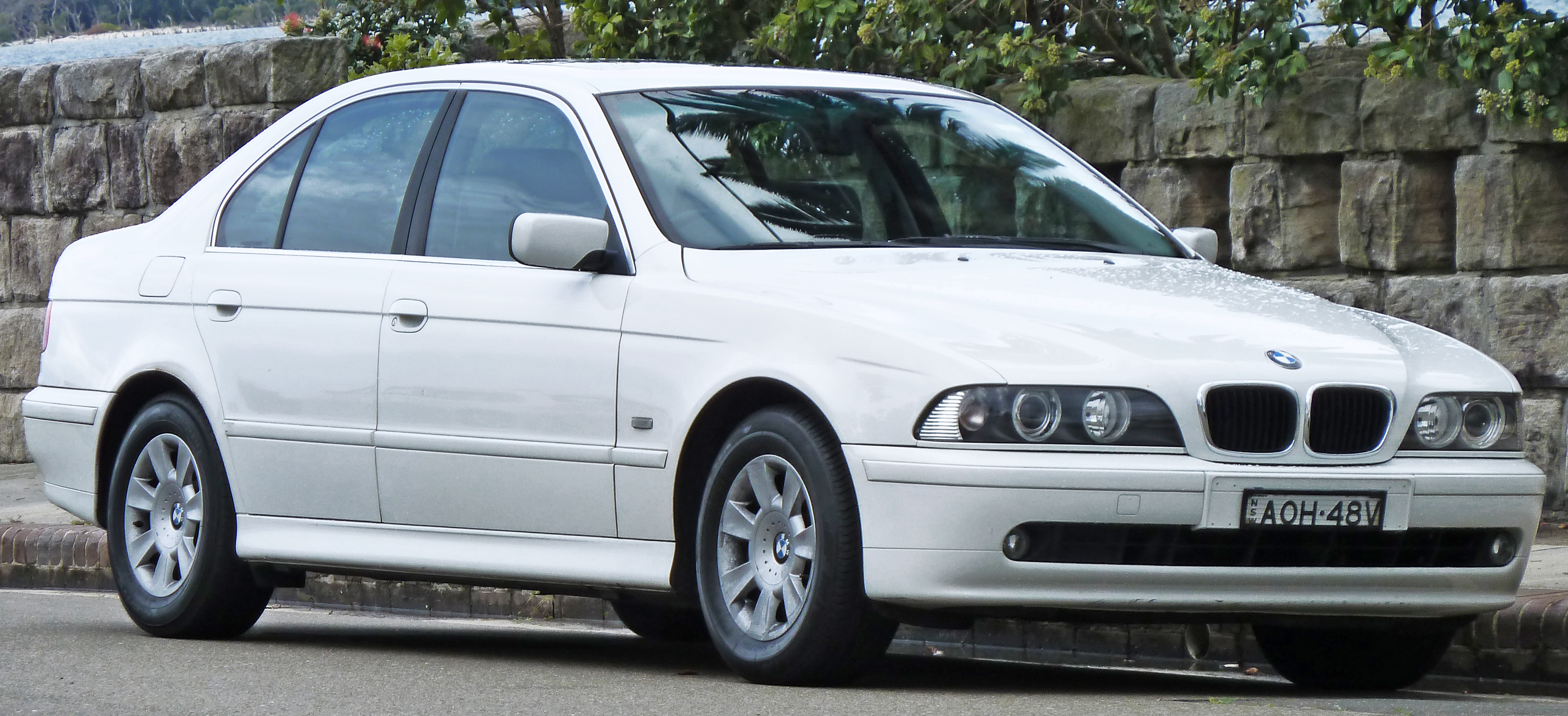 2000–2003 BMW 525i (E39) Executive sedan. Photographed in Sandringham, New South Wales, Australia.